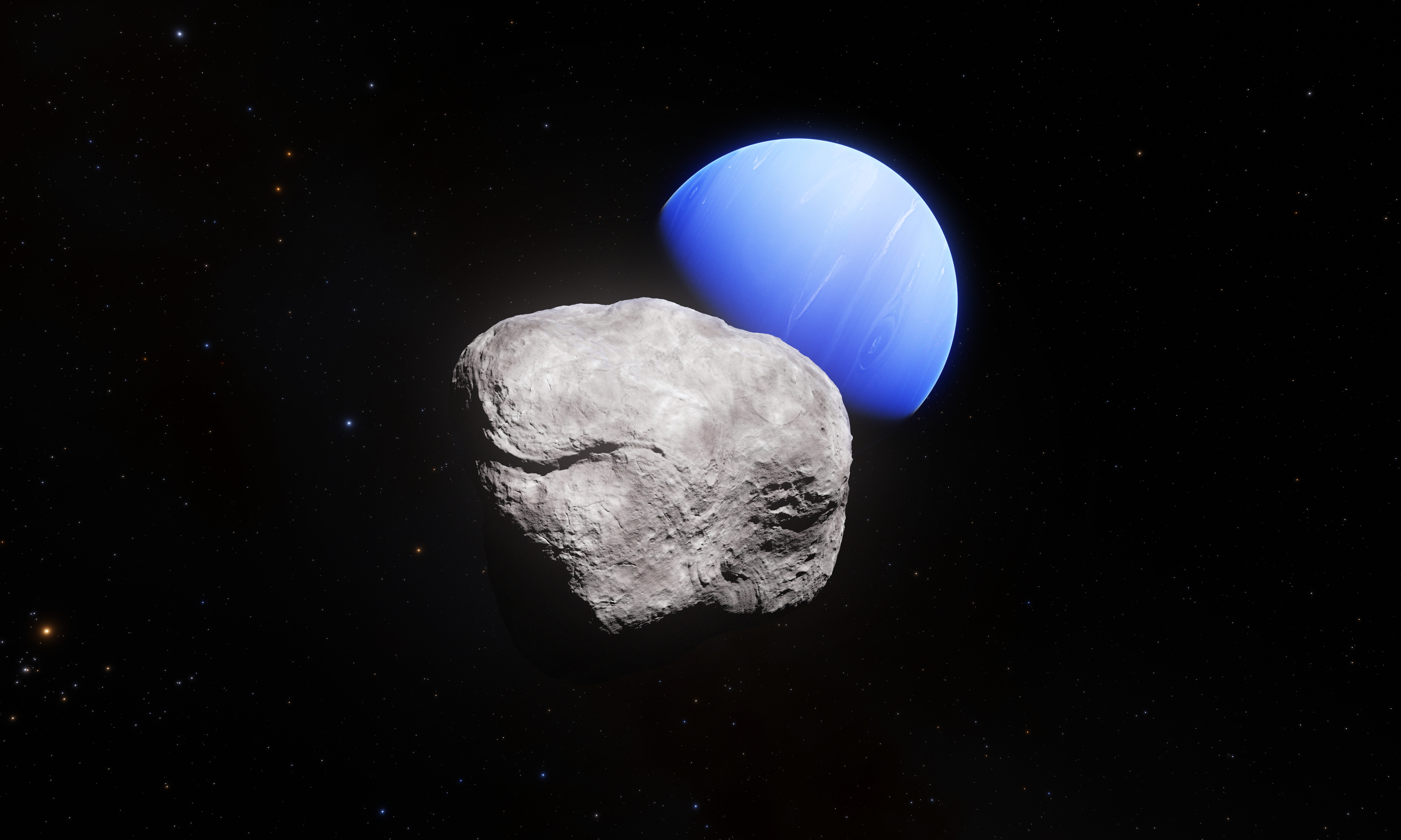 This artist’s impression shows the outermost planet of the Solar System, Neptune, and its small moon Hippocamp. Hippocamp was discovered in images taken with the NASA/ESA Hubble Space Telescope. Whilst the images taken with Hubble allowed astronomers to discover the moon and also to measure its diameter, about 34 kilometres, these images do not allow us to see surface structures.